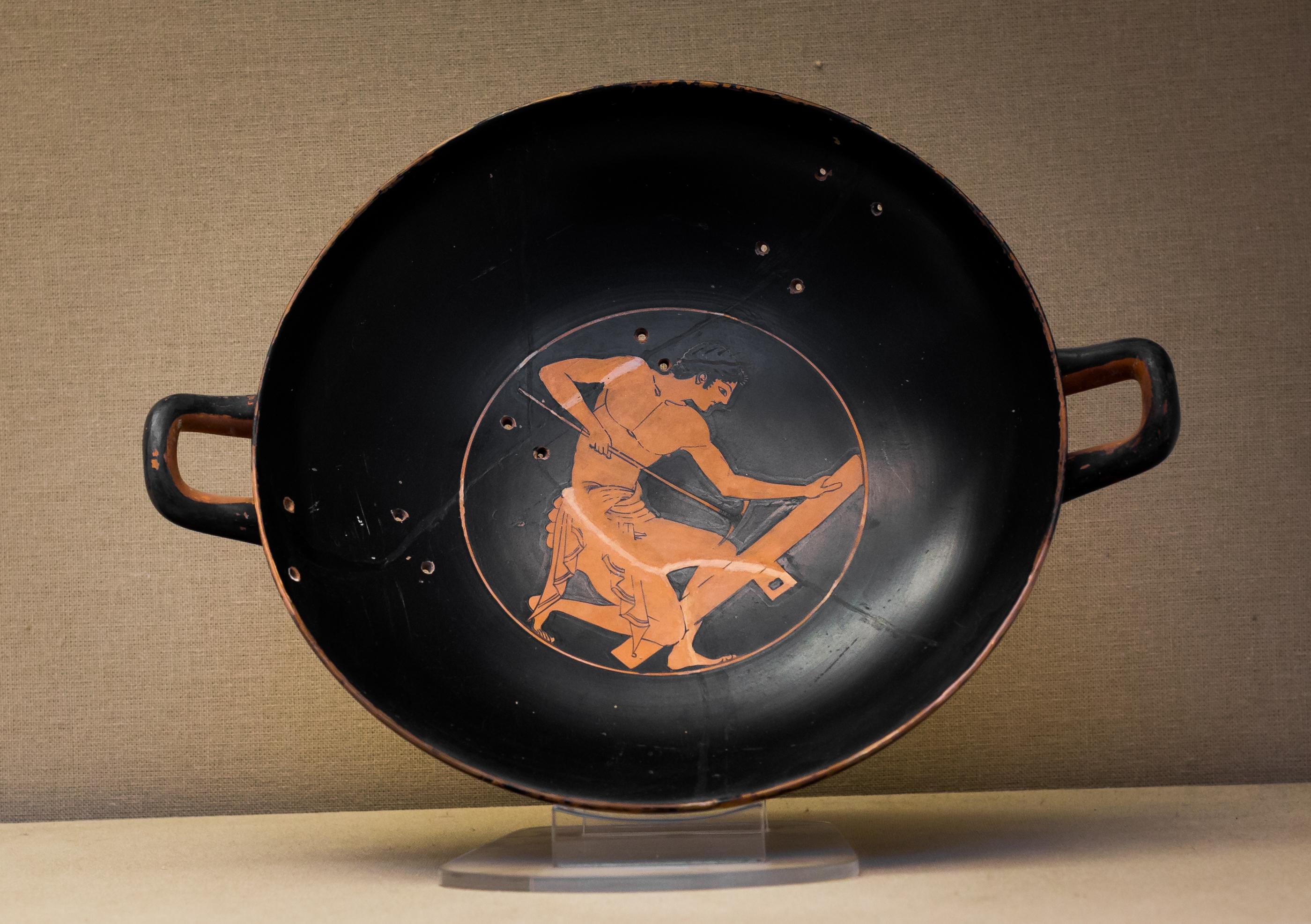 object type / vase shape: attic red figure cup (kylix), ancient repair - description interior: beardless young carpenter, wearing a chlamys, working on a wooden beam - production place: Athens - painter: Carpenter Painter - period / date: late archaic, ca. 510-500 BC - material: pottery (clay) - height: 7,6 cm; diameter: 20,5 cm - findspot: Vulci (or Chiusi) - museum / inventory number: London, British Museum 1836,0224.231 Cat. Vases E 23 - bibliography: John D. Beazley, Attic Red-Figure Vase-Painters, Oxford 1963(2), 179, 1 - Please note: The above museum permits photography of its exhibits for private, educational, scientific, non-commercial purposes. If you intend to use the photo for any commercial aime, please contact the museum and ask for permission.